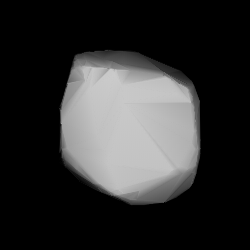 3D convex shape model of 10656 Albrecht, computed using light curve inversion techniques. J. Hanuš, J. Ďurech, M. Brož, B. D. Warner (June 2011). "A study of asteroid pole-latitude distribution based on an extended set of shape models derived by the lightcurve inversion method". Astronomy and Astrophysics 530: A134. ISSN 0004-6361. arXiv